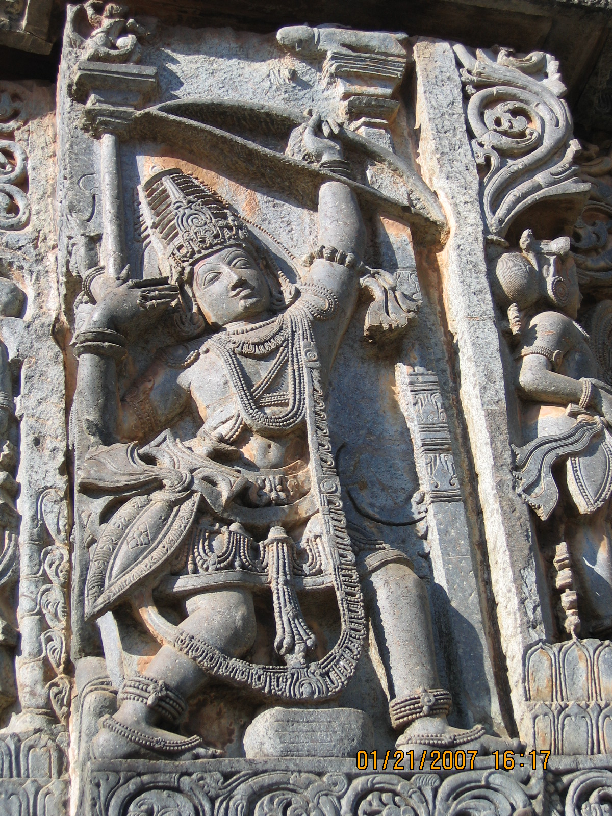 Arjuna at Halebeedu